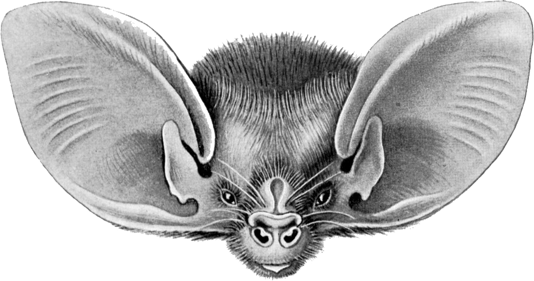 Lesser Long-eared Bat